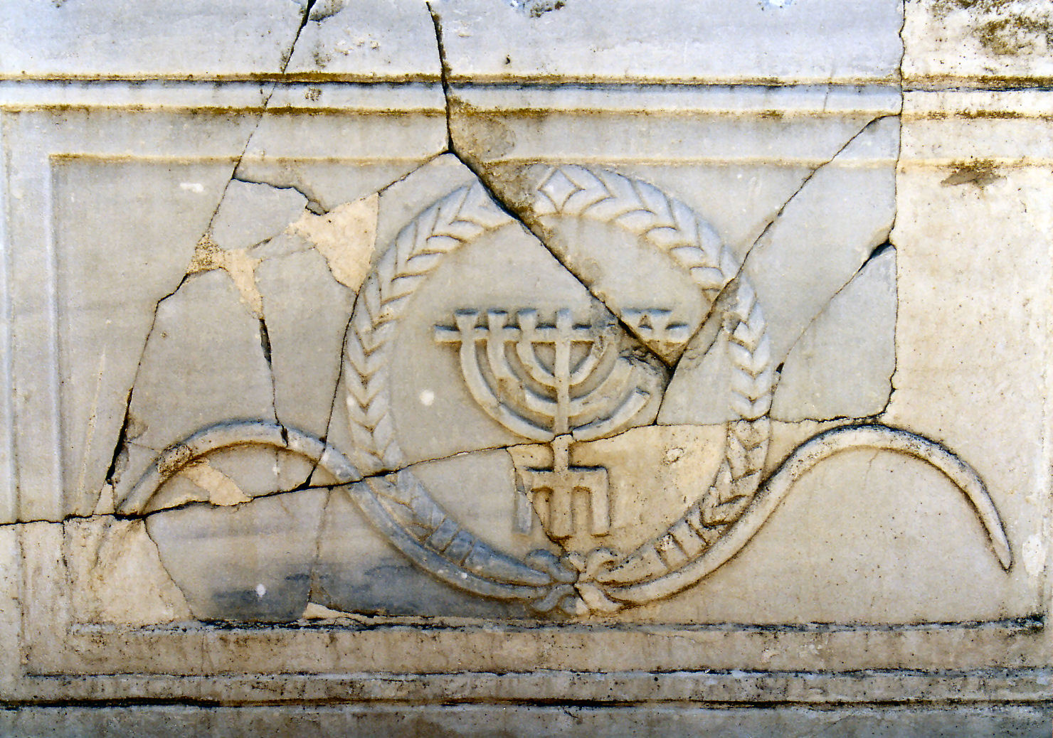 Rehov Mosaic replica, in Kibbutz Ein HaNatziv